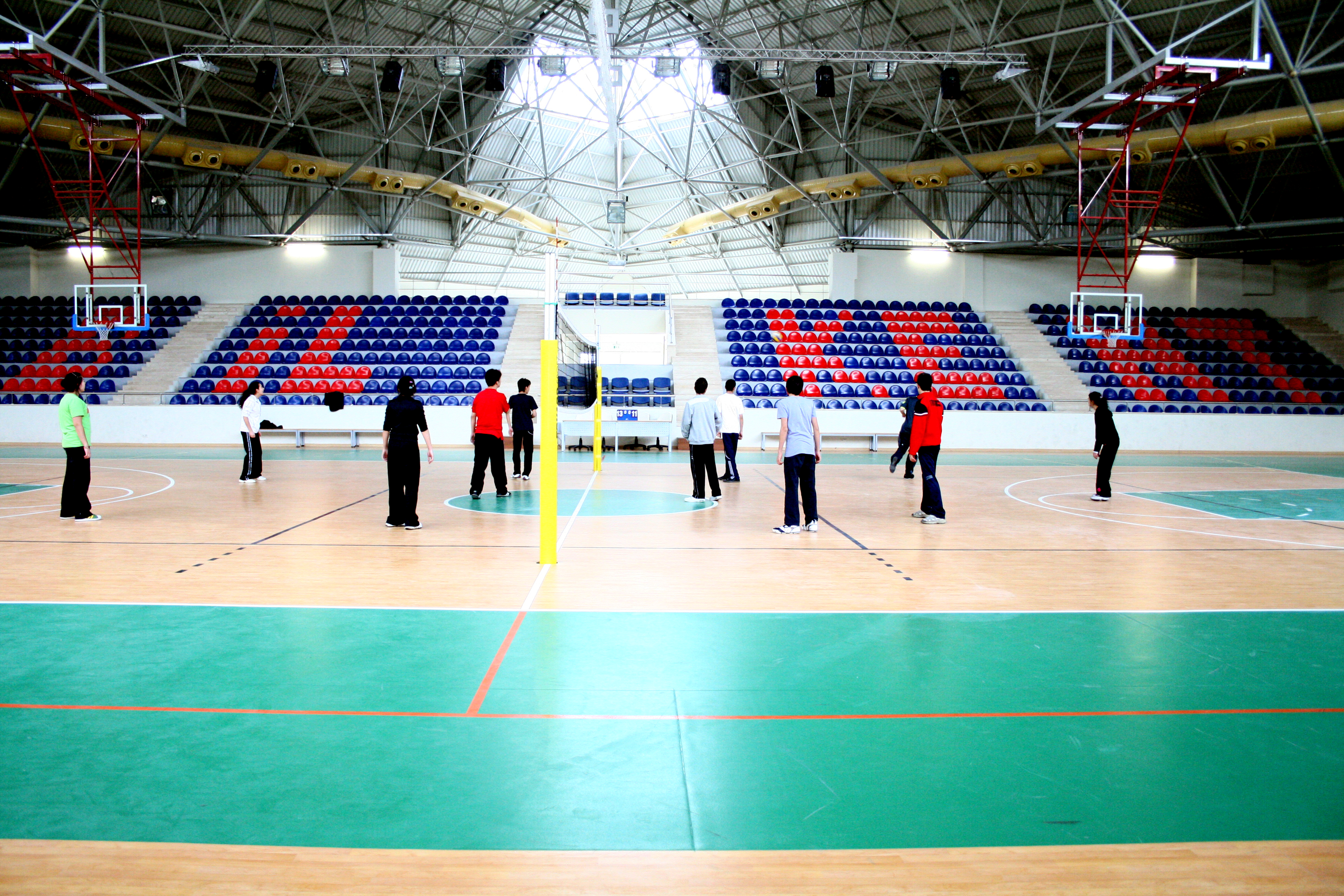 Bilkent Erzurum Sports Hall Main View